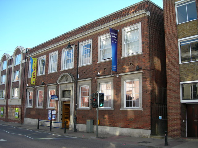 Gillingham Library